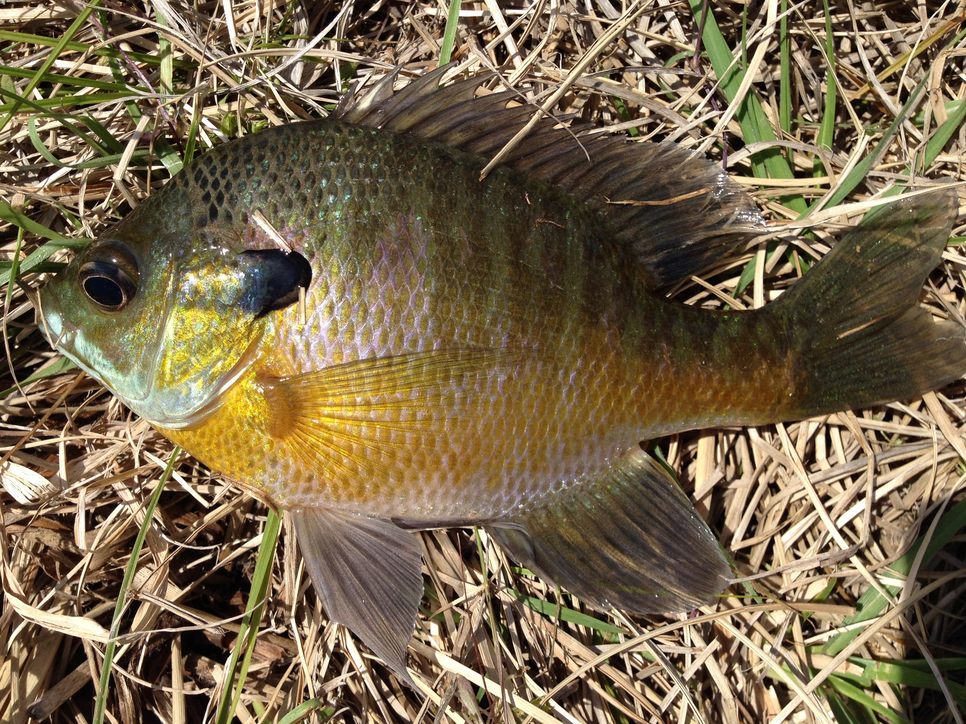 A bluegill (Lepomis macrochirus) at the University of Mississippi Field Station.